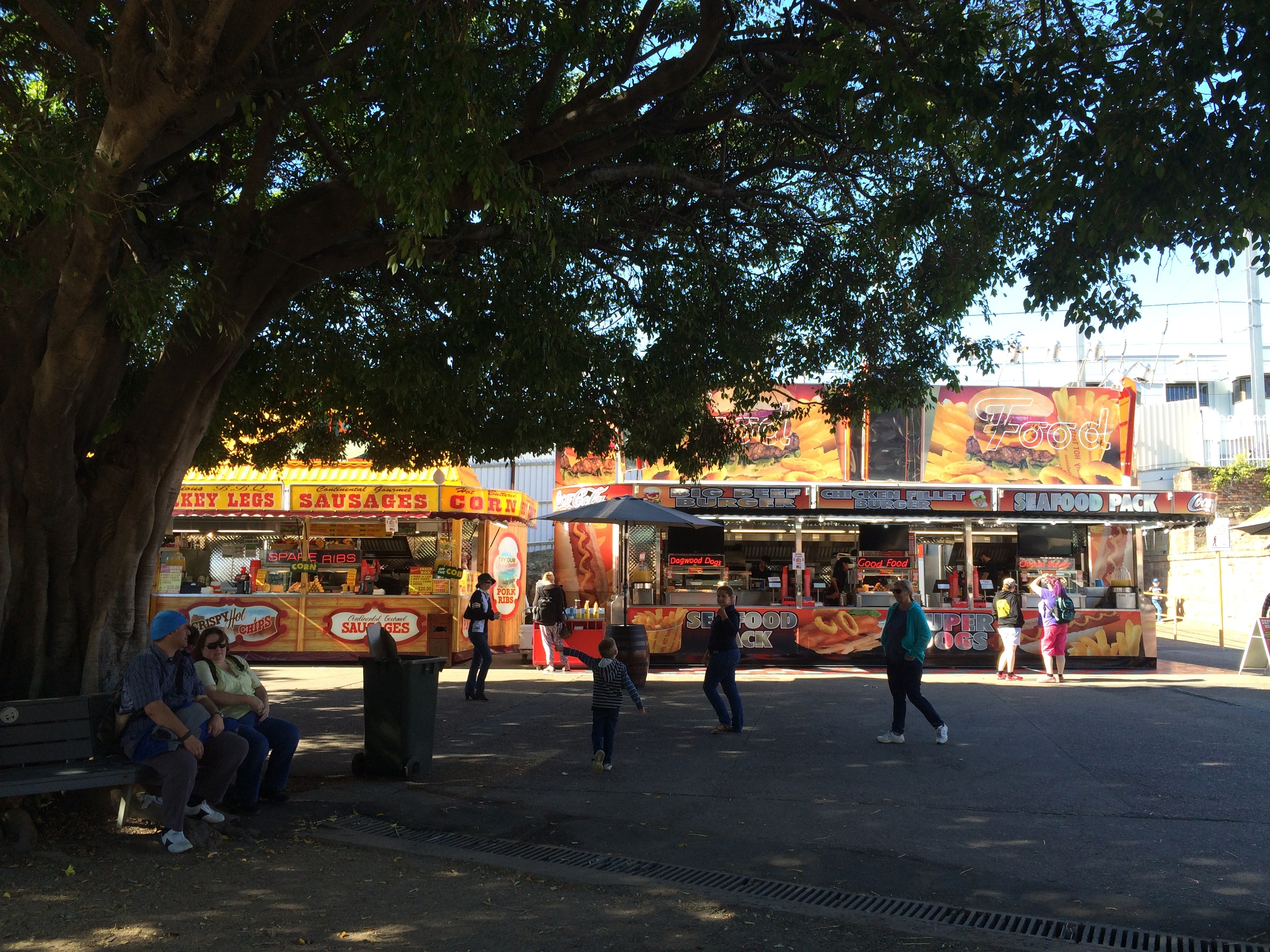 Food stalls from under the spreading trees, Ekka, Brisbane, 2015